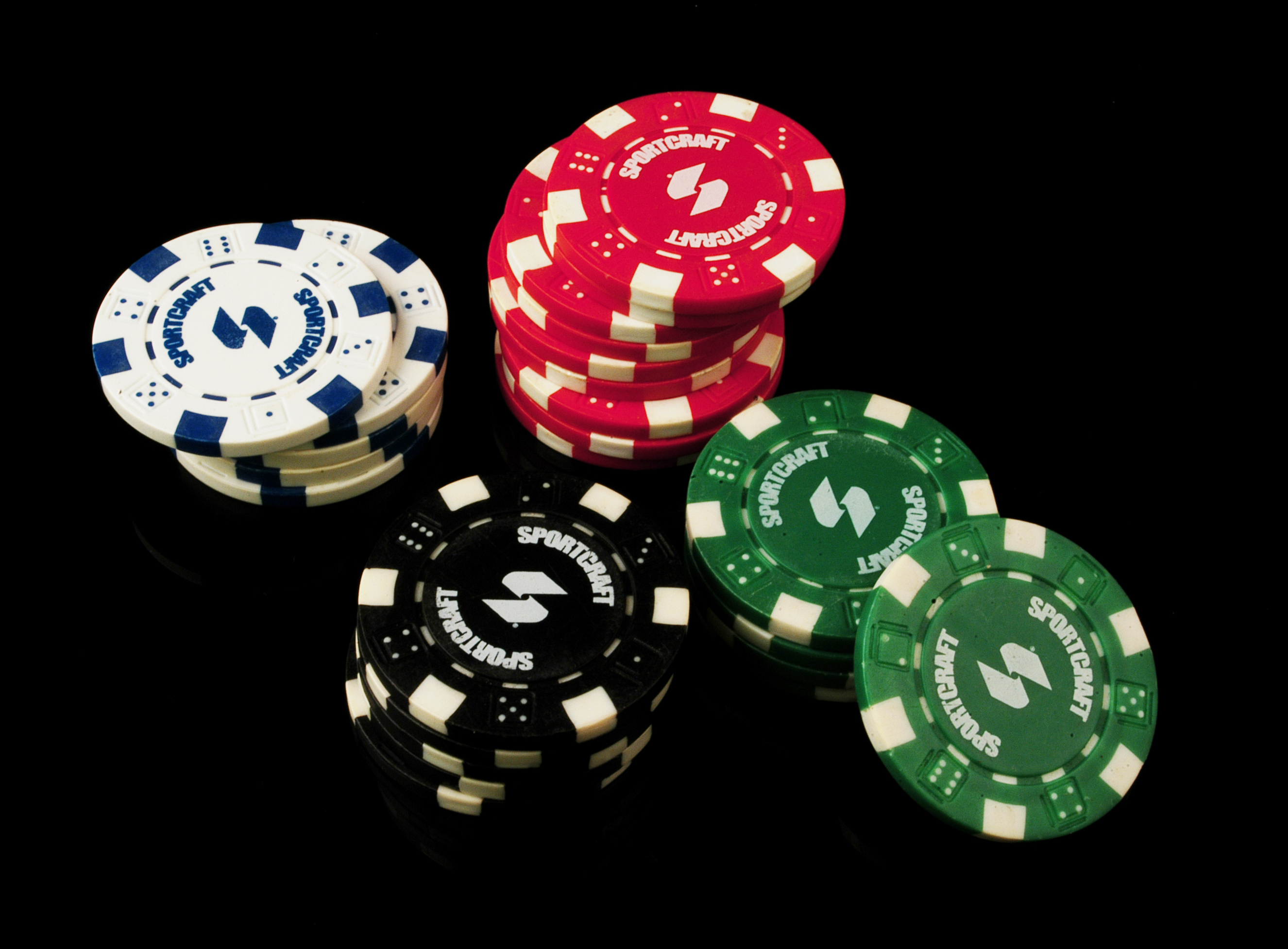 Poker Chips